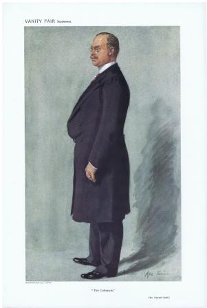 Caricature of Oswald Stoll. Caption read "The Coliseum".